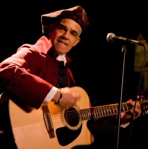 New York 2010